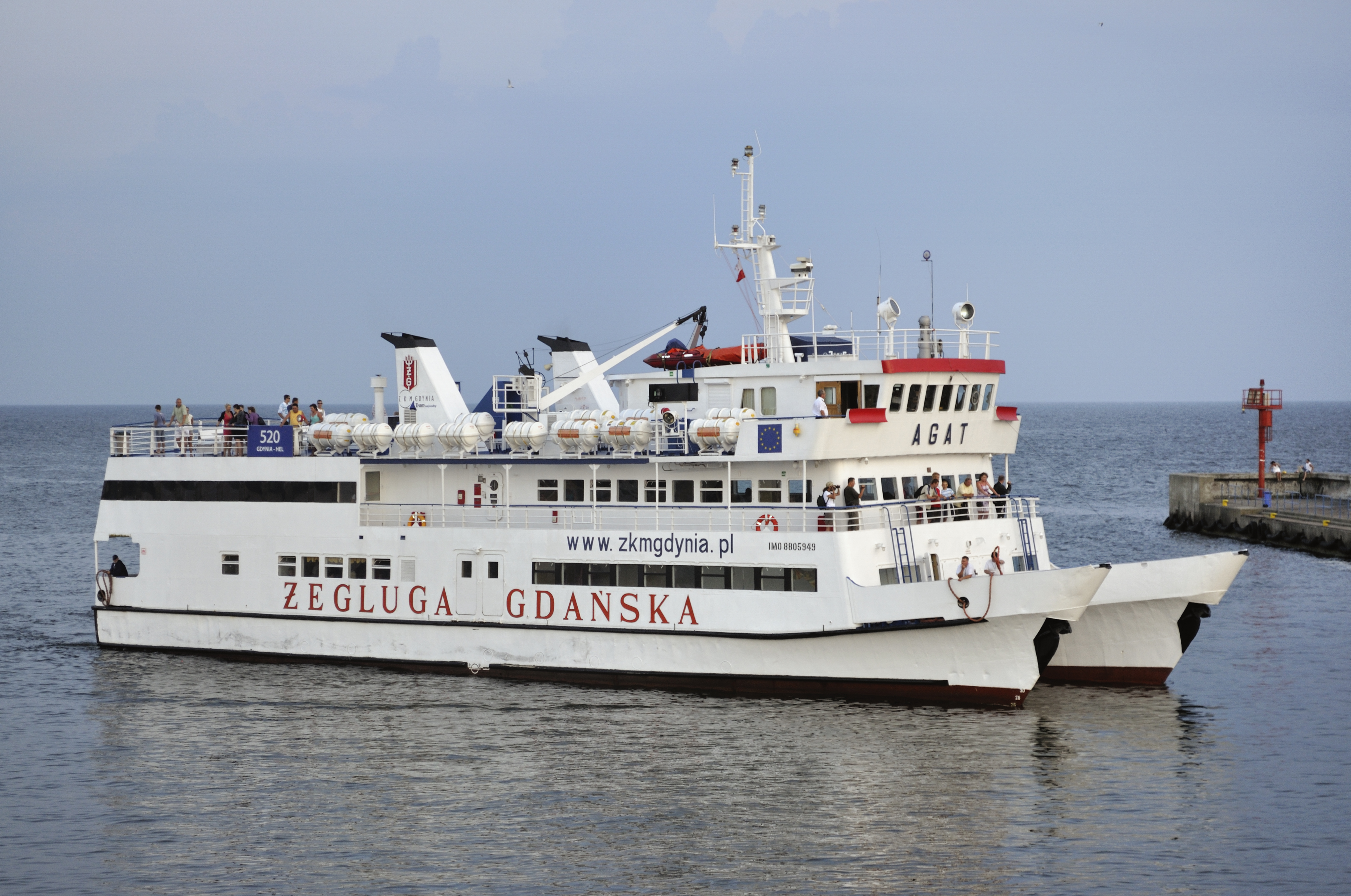 Picture taken in Hel after Wikimania 2010 conference. Ferry Agat.